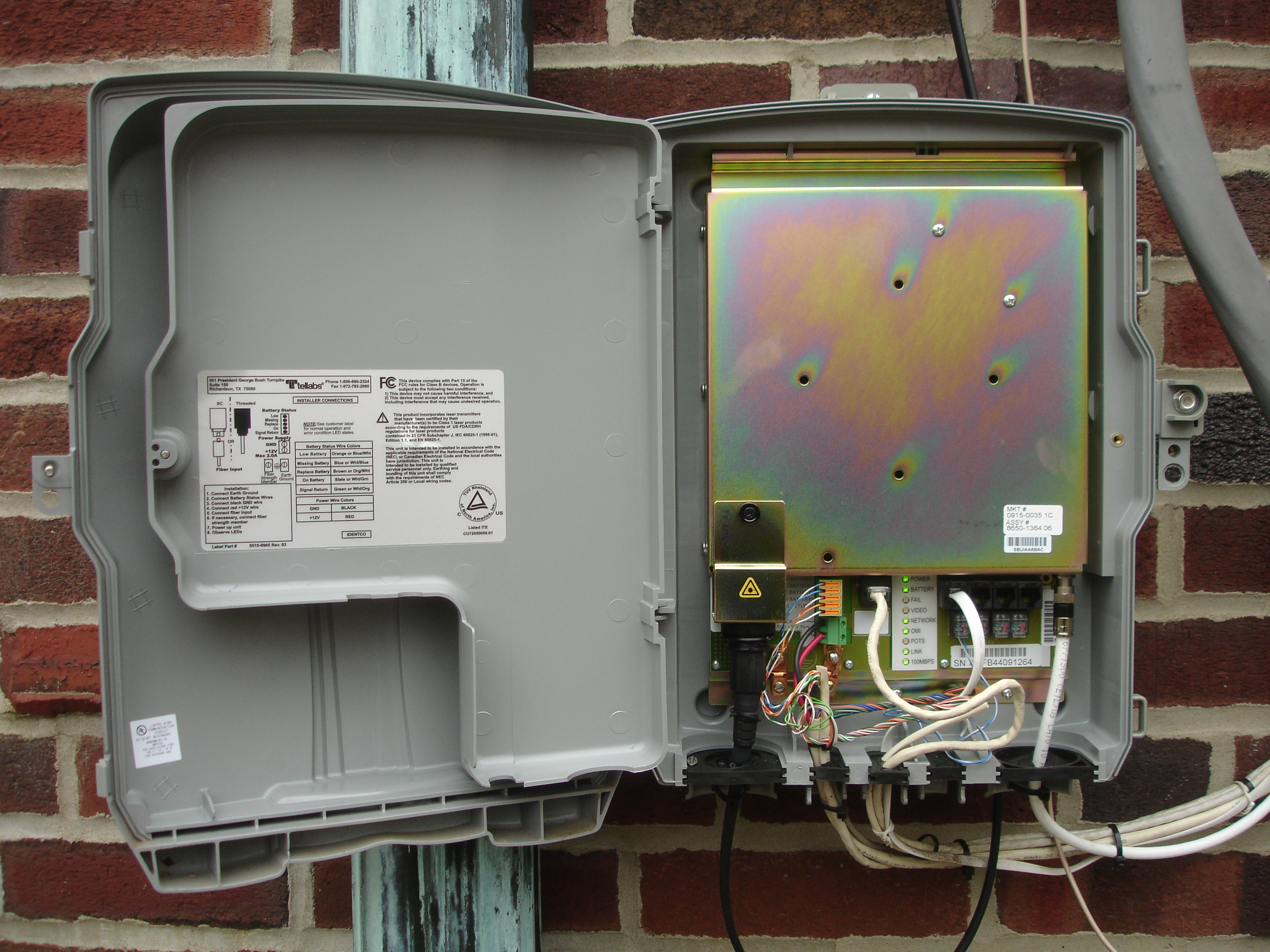 Tellabs Optical Network Terminal (ONT) model 611, inside the installation